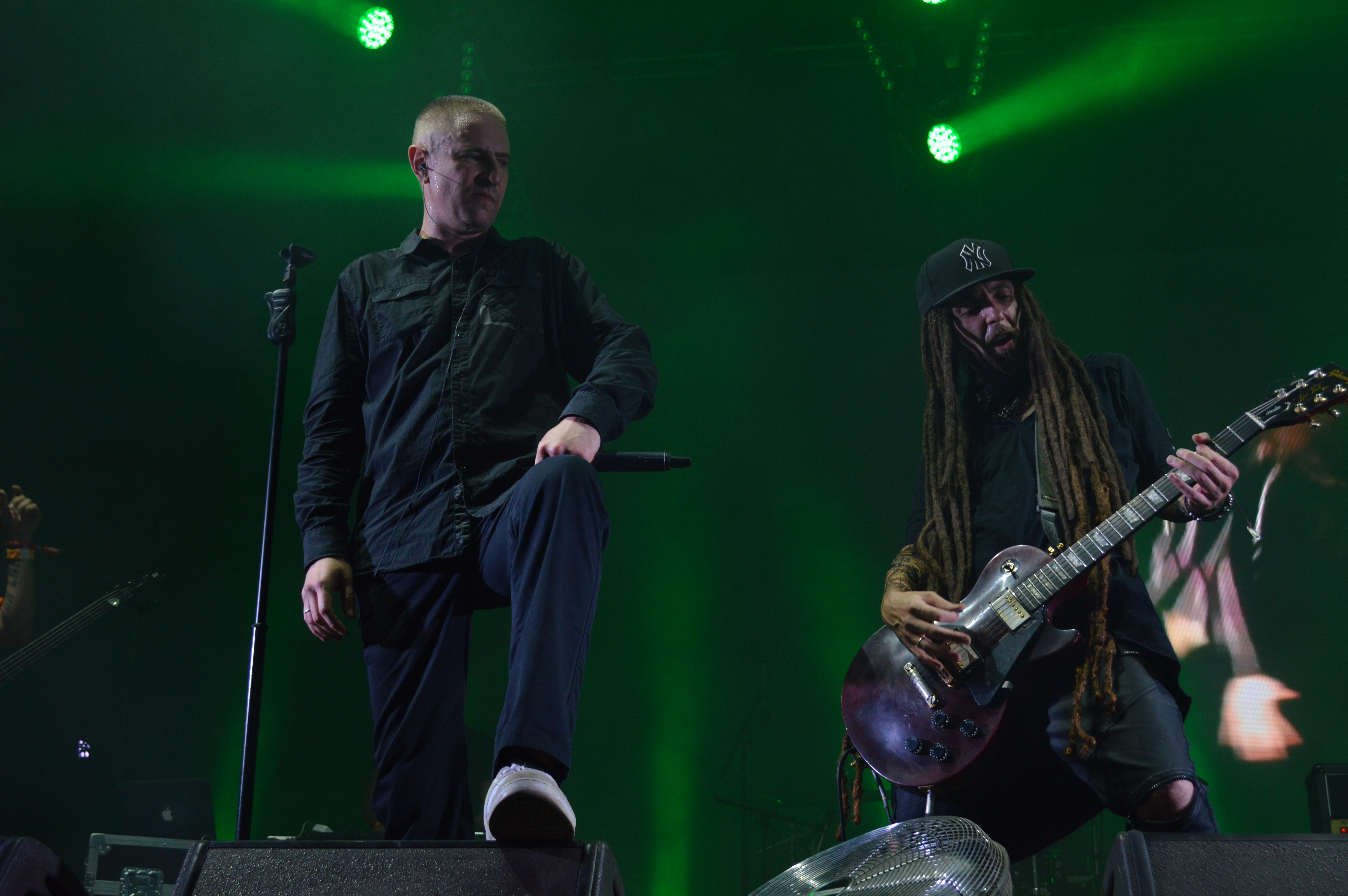 Ukrainian band Green Grey at the 2018 MRPL City Festival.